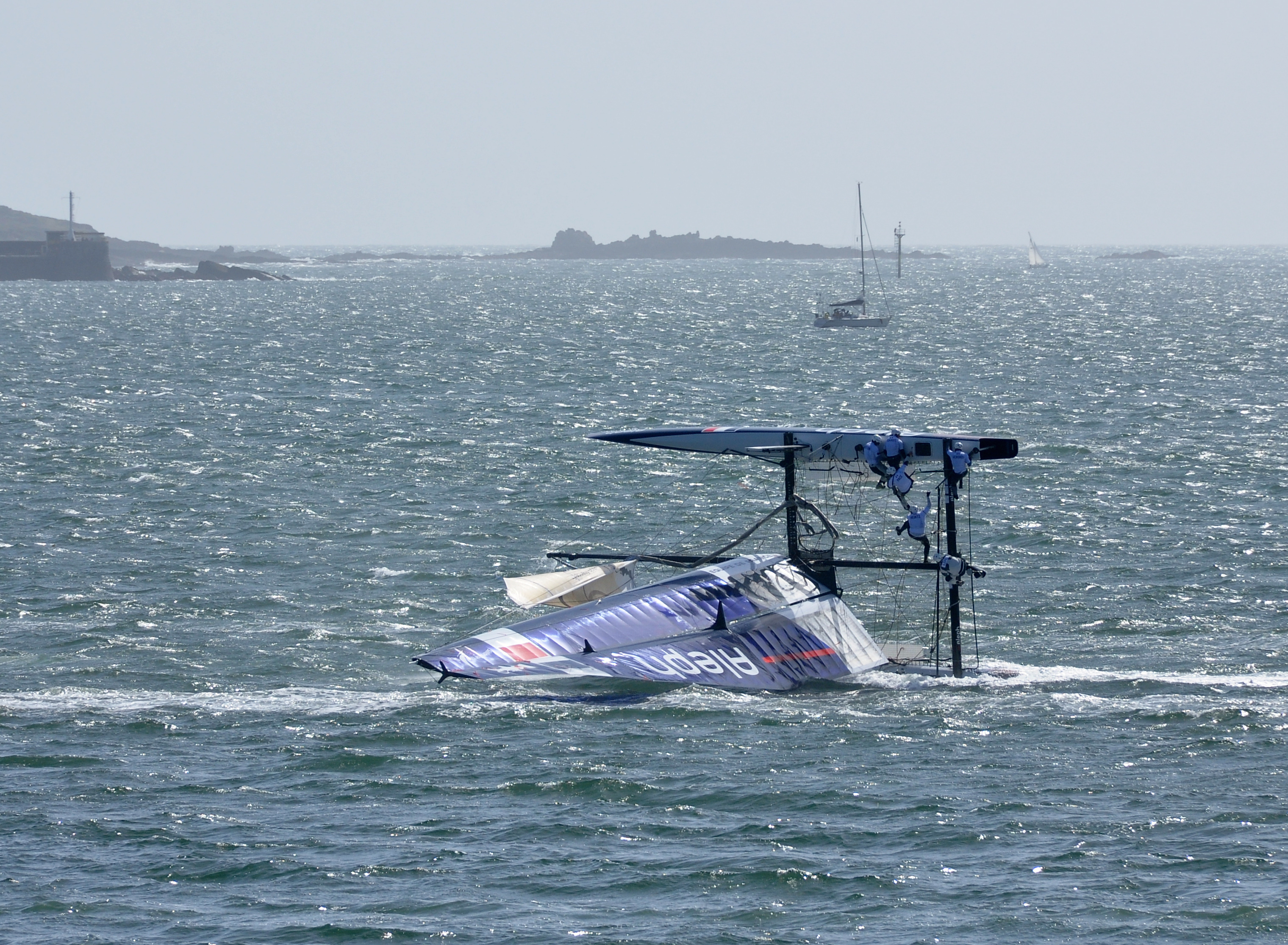 The Aleph yacht capsizing off Plymouth Hoe, during the America's Cup fleet race on 2011-09-11